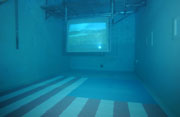 This is a photo of the experimental test pool of the United States Navy Experimental Diving Unit